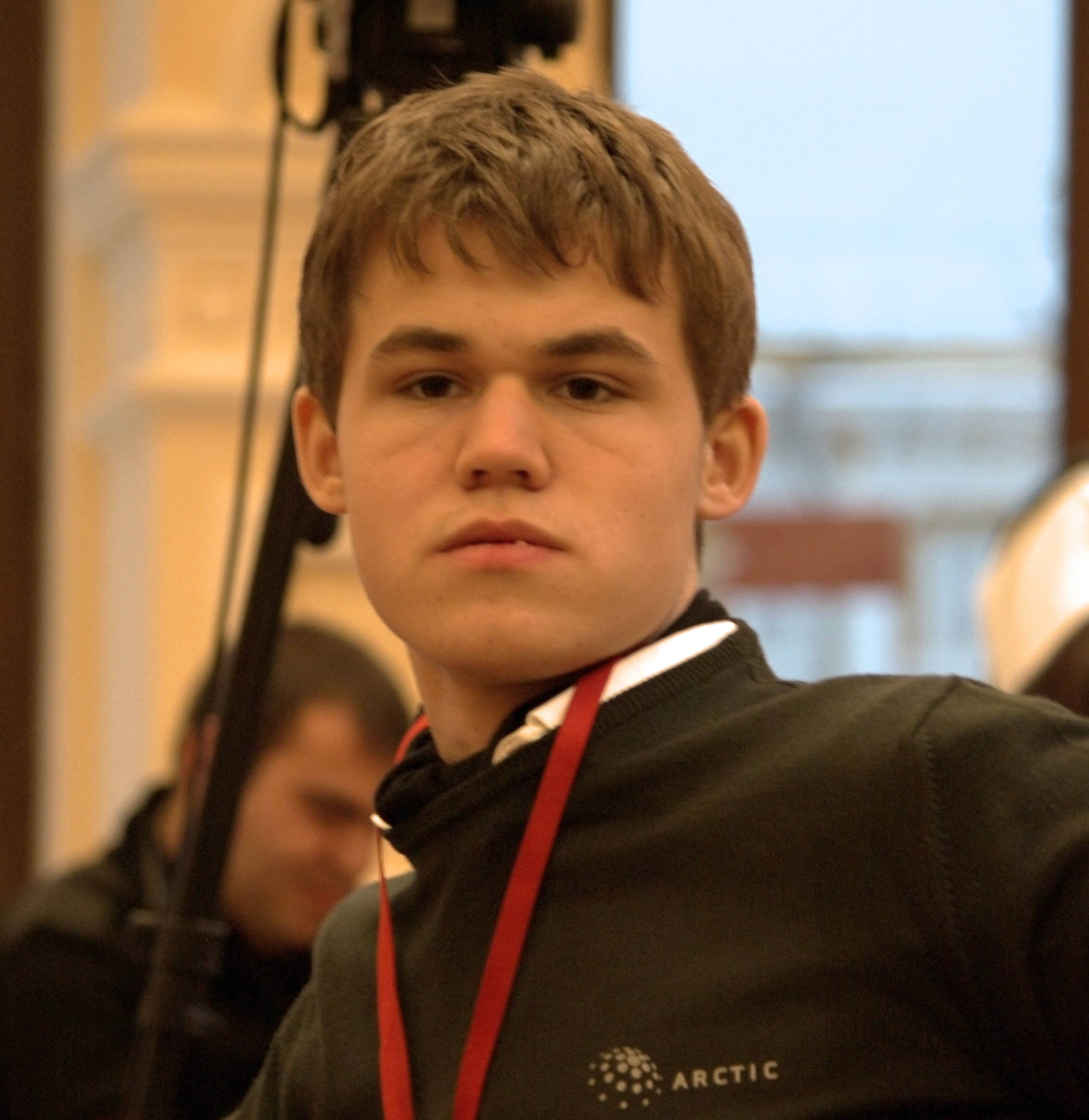 Magnus Carlsen before his first game at world blitz championship 2009.